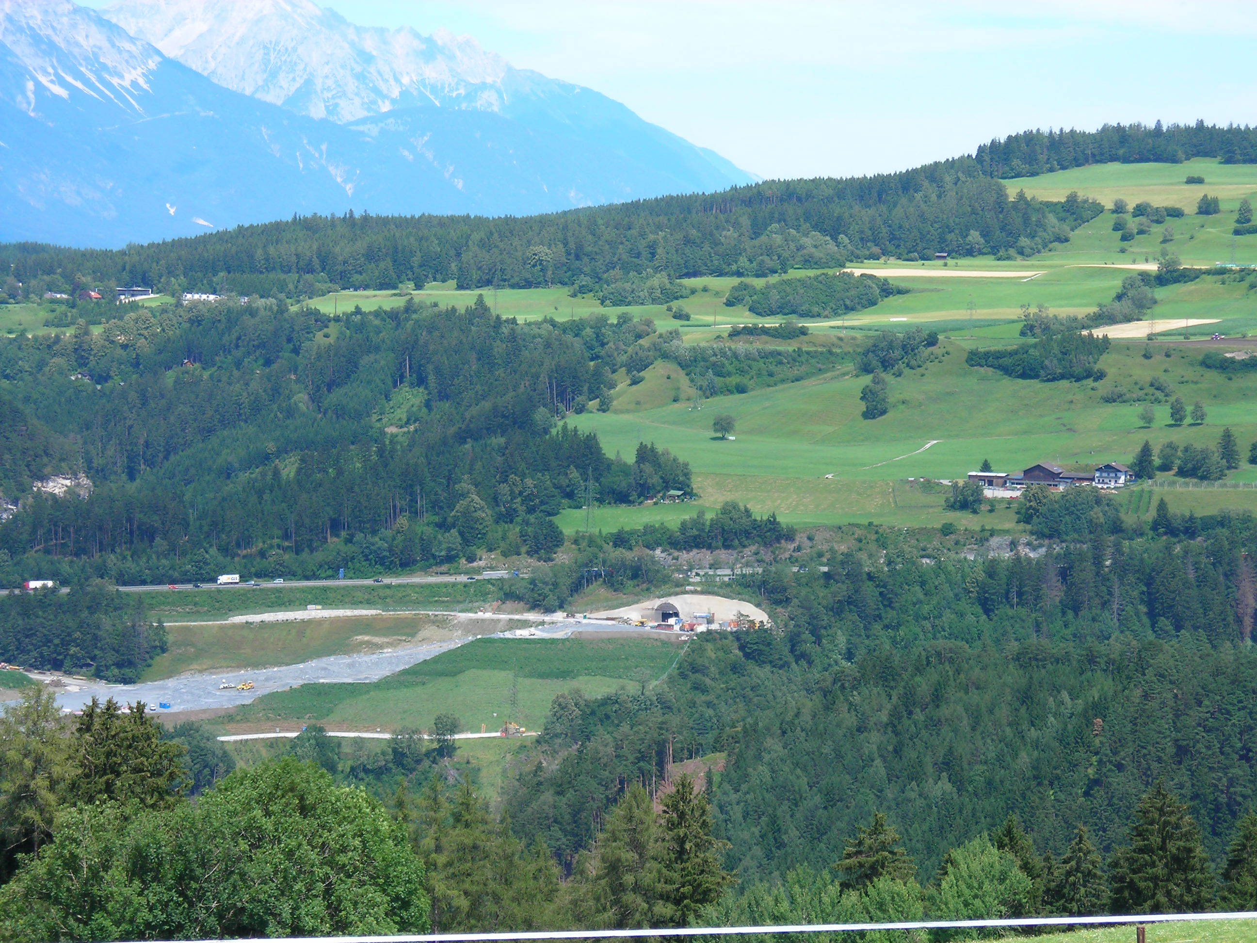 Brenner Basis Tunnel at Mutters, Austria